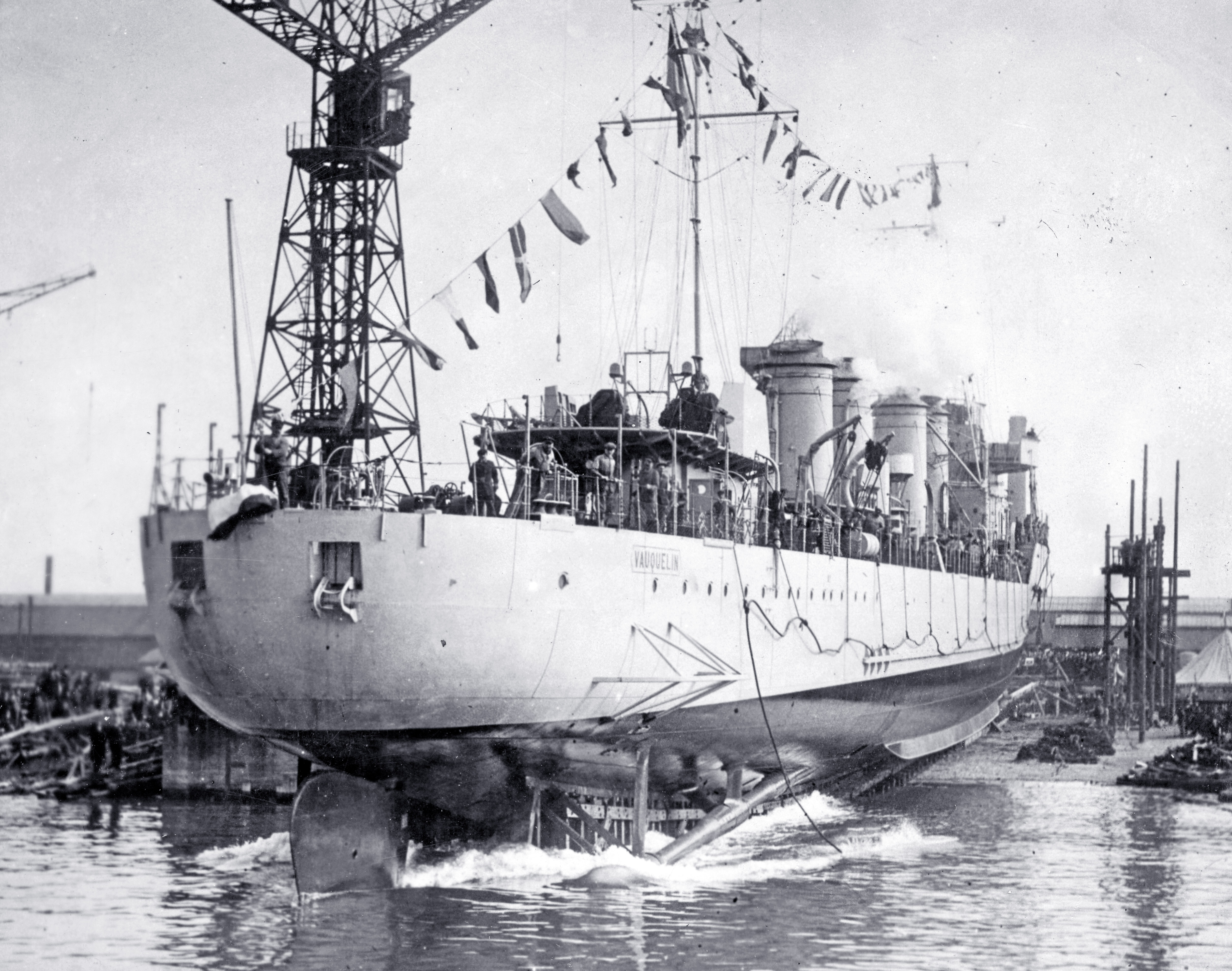 The French destroyer Vauquelin sliding down the ways during her launching, at the Dunkirk (Dunkerque) shipyard of Ateliers et Chantiers de France, 29 March 1931. A large floating drydock is in the right background. .